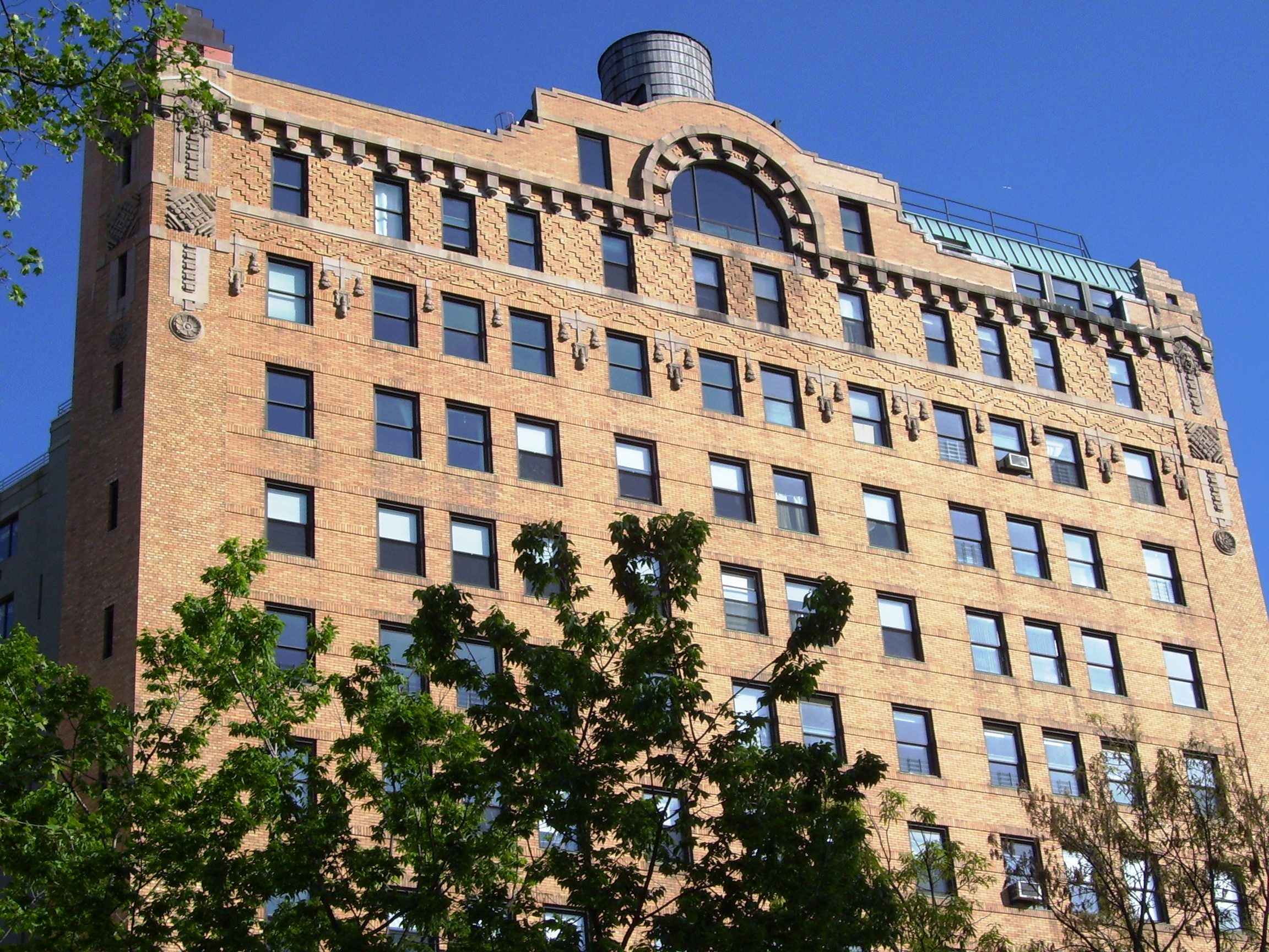 The Cliff Dwelling at 243 Riverside Drive (or 337 West 96th Street) on the corner of West 96th Street in the Upper West Side of Manhattan, New York City, was built in 1914 and was designed by Herman Lee Meader. The facade features a frieze with mountain lines, rattlesnakes and buffalo skulls. (Source: AIA Guide to NYC (4th ed.))